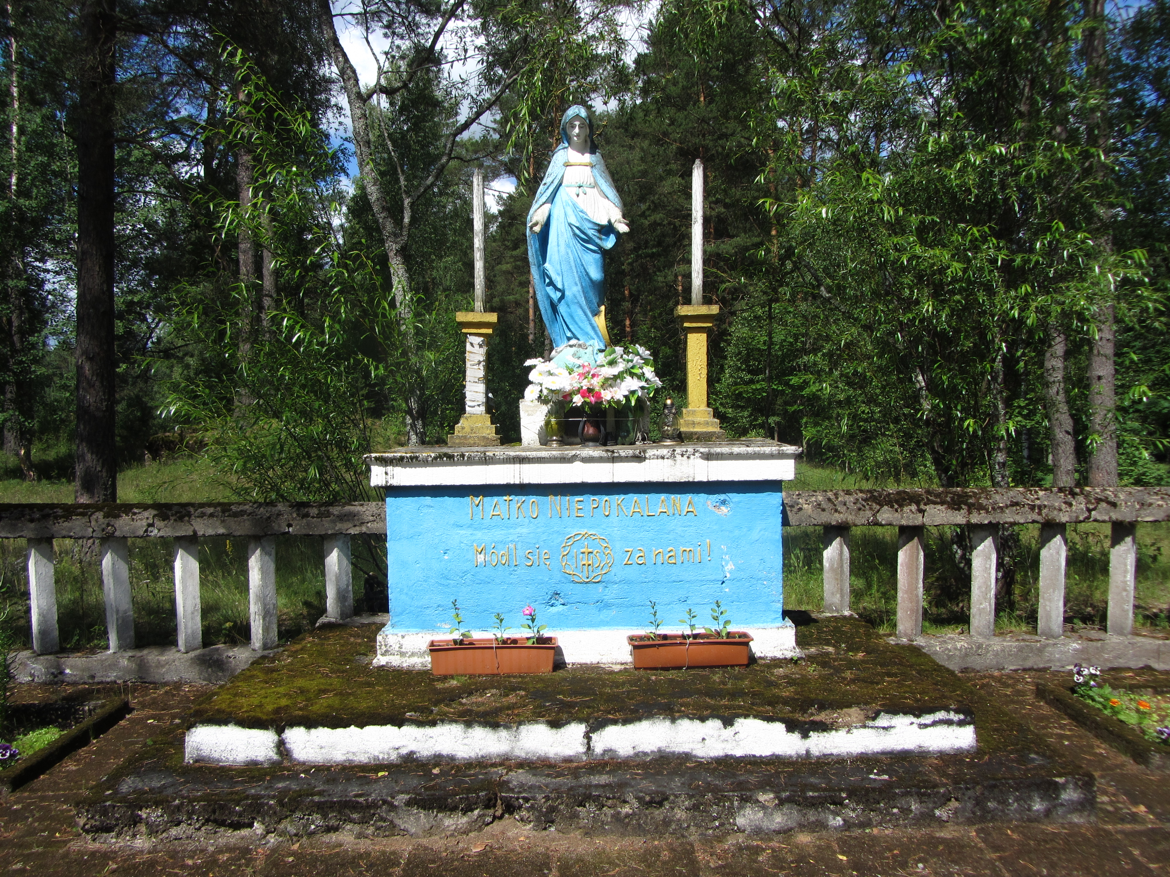 Gelednė 18189, Lithuania